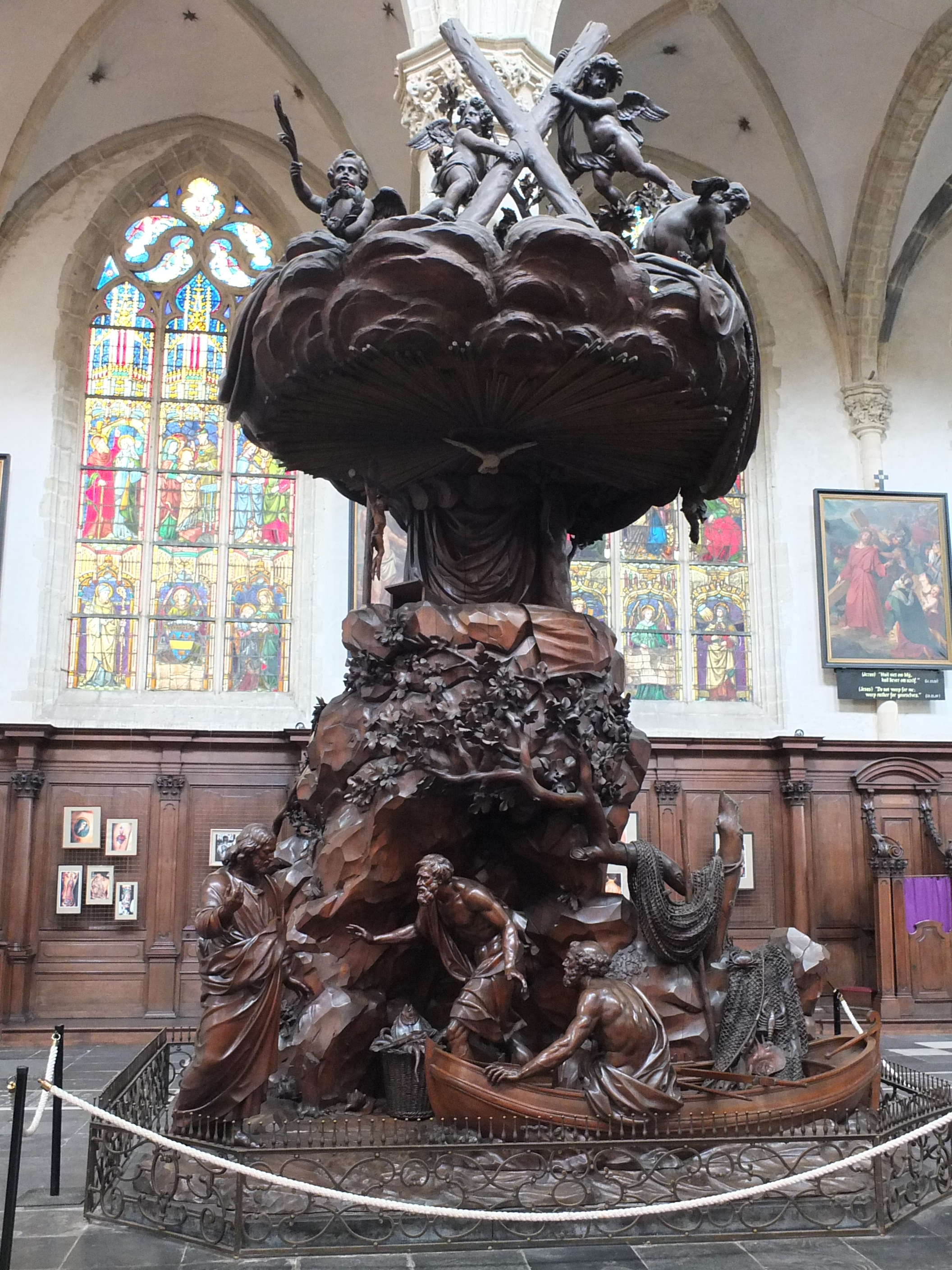 Pulpit in St. Andrew's Church in Antwerp by Jan-Baptist van Hool and Jan-Frans van Geel. It represents the calling of Peter and his brother Andrew. both are depicted amidst their daily work and are called upon by Christ to fish for people with Him (Mt 4, 18-20).